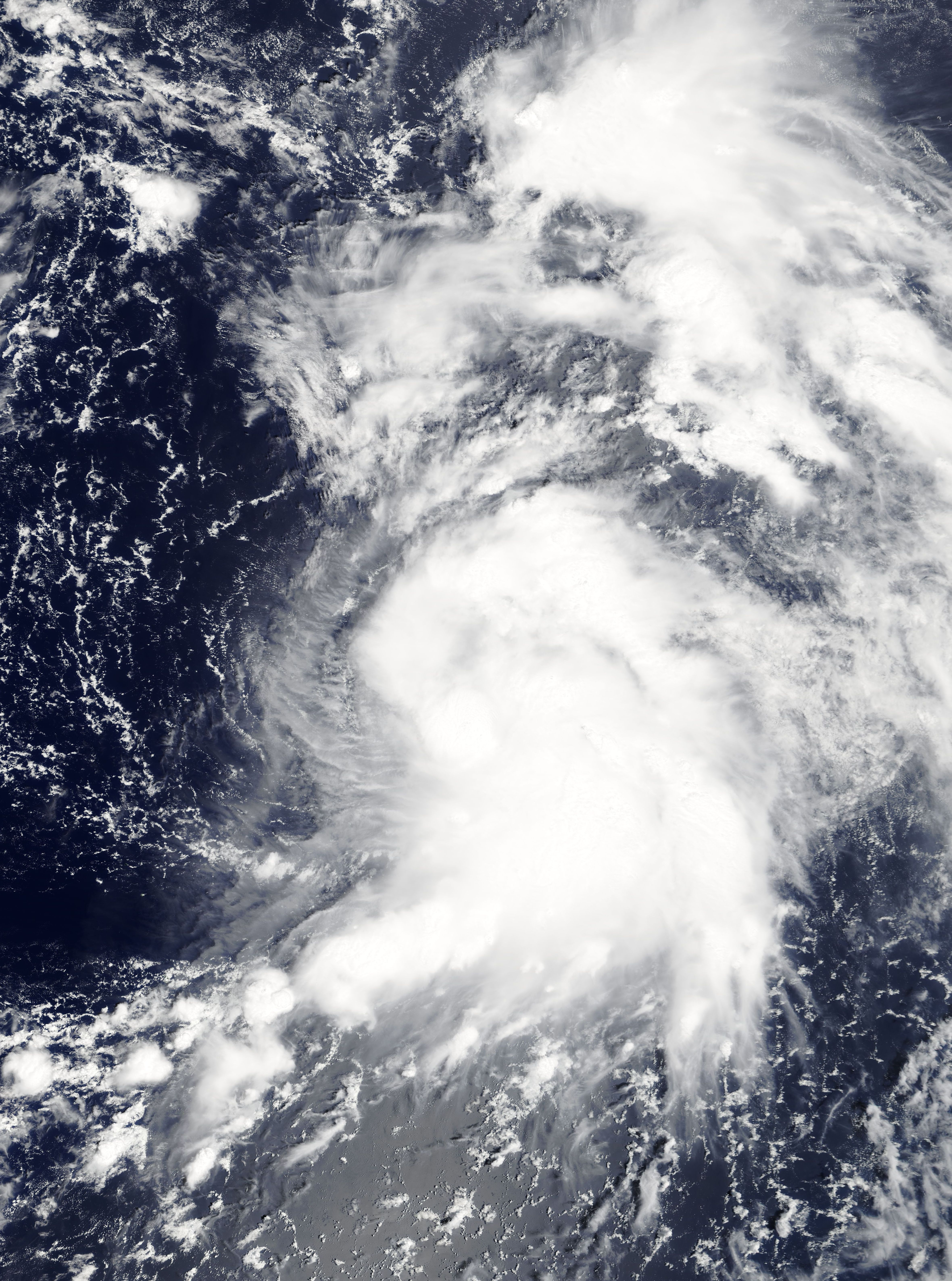 Tropical Storm Krovanh (0911, 12W) on August 28, 2009.